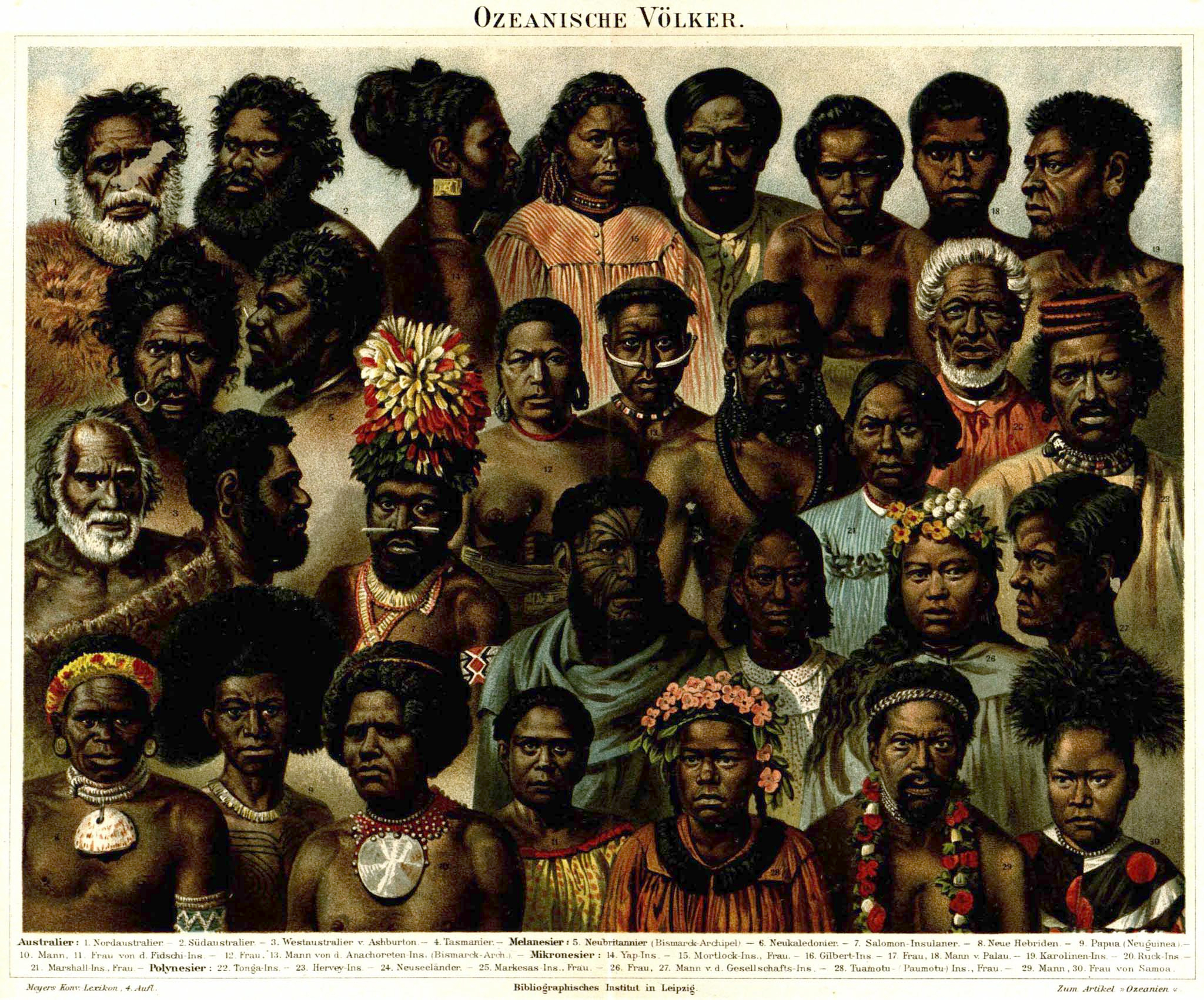 People from Oceania